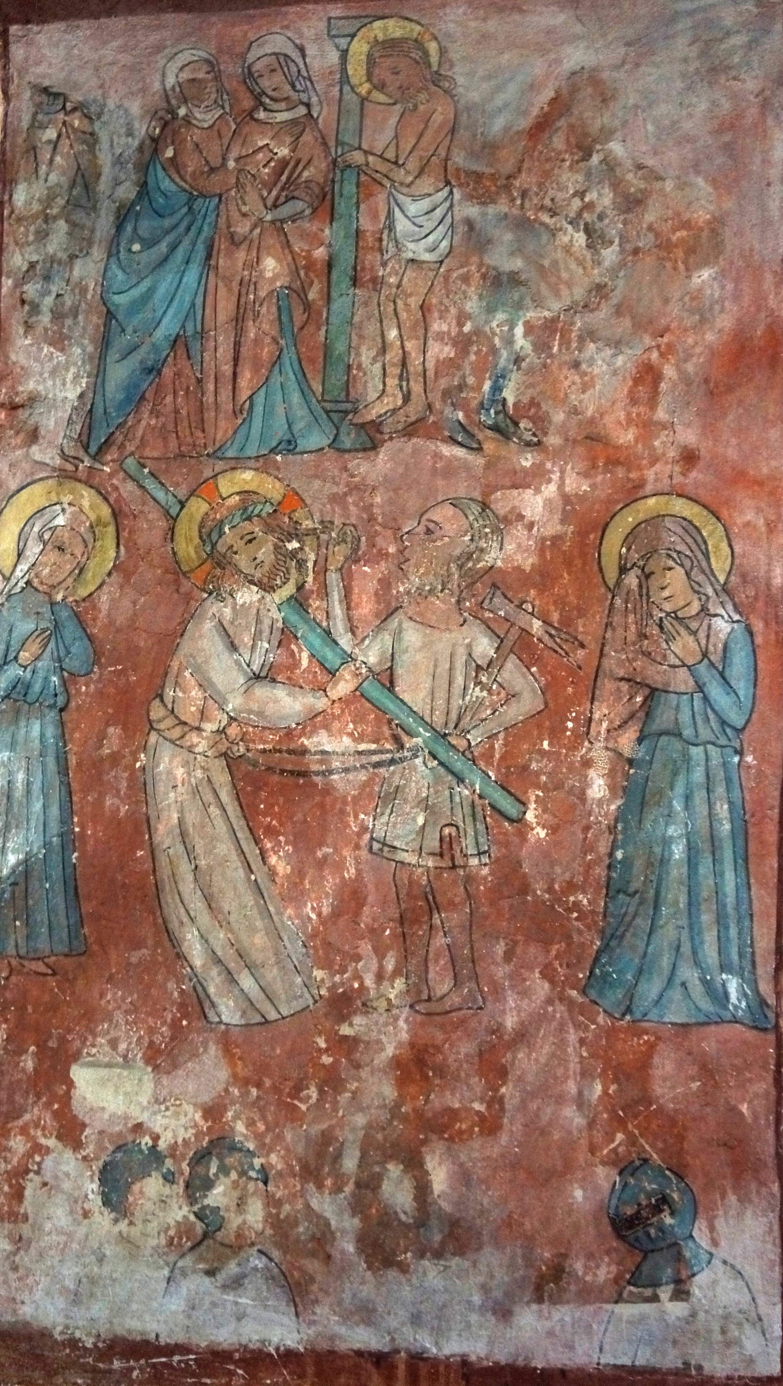 Fresco in the Alexander Church in Wildeshausen